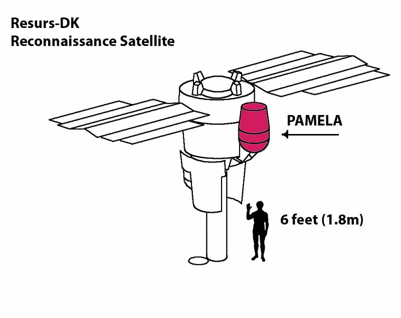 PAMELA module location shown on Resurs-DK1 satellite